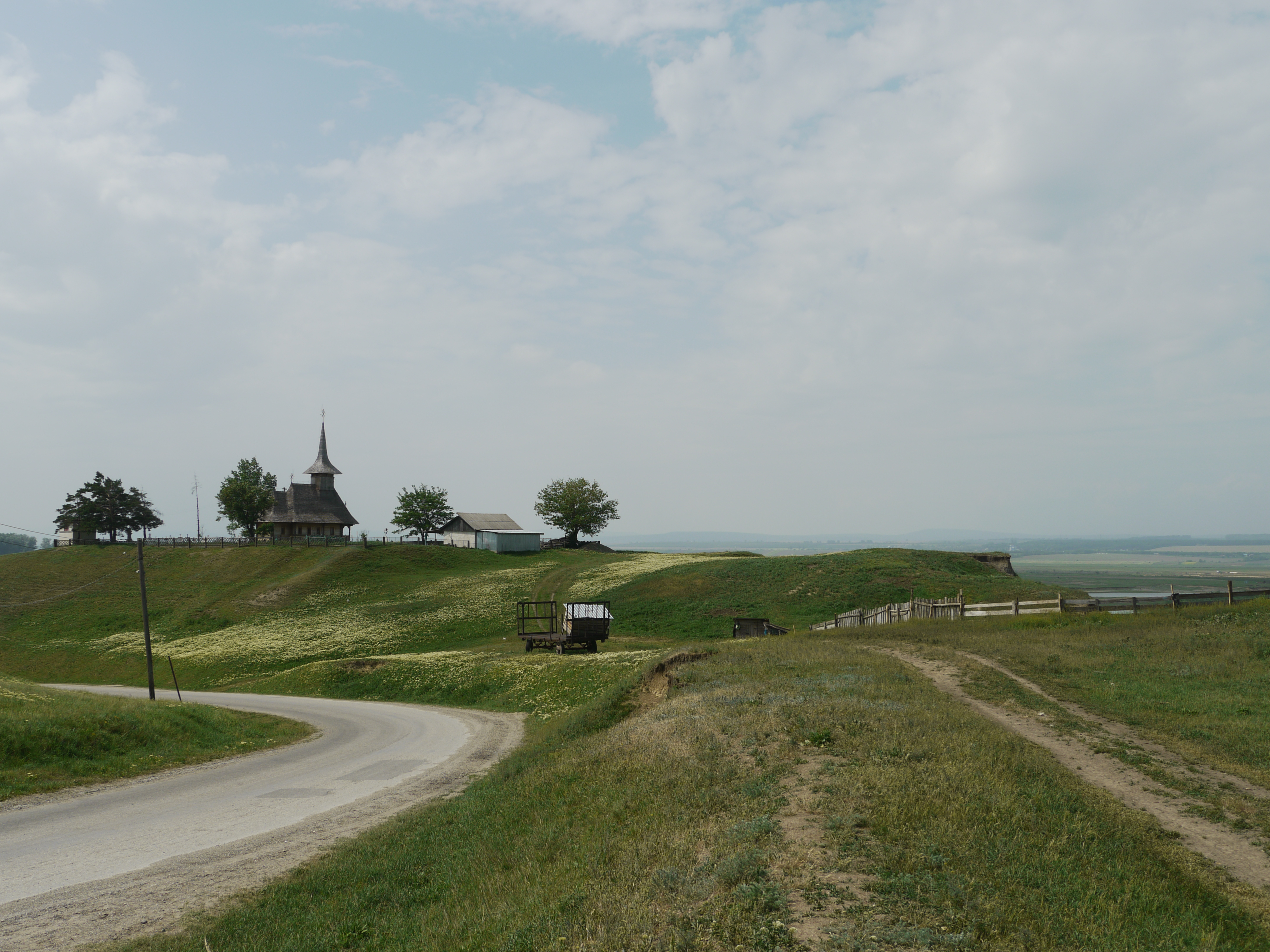 Zargedava, acropola